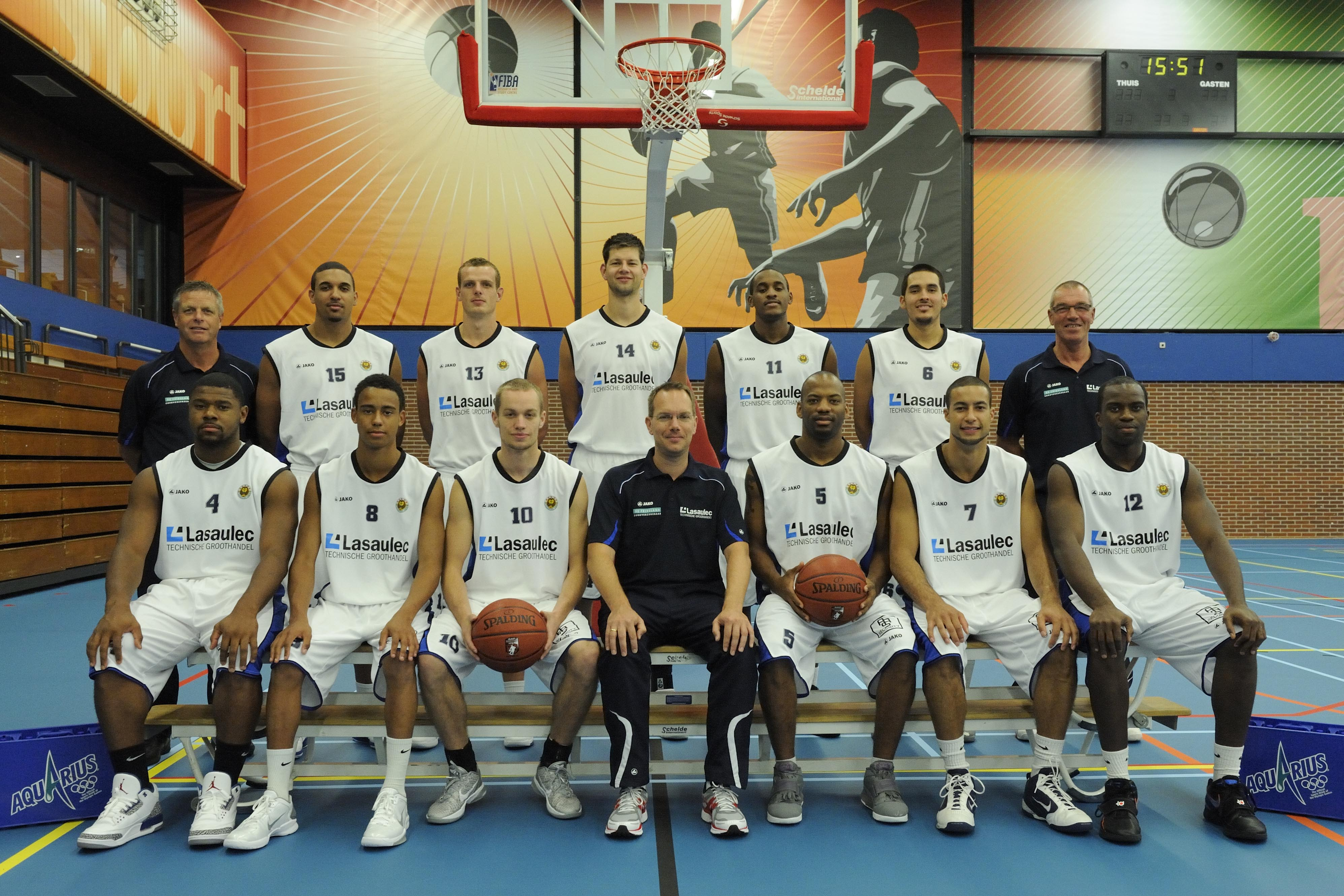 Teamphoto Lasaulec Aris, 2011-2012 season